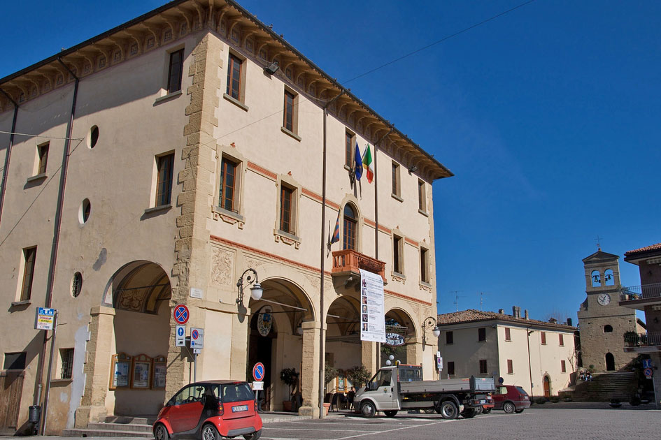 Town Hall and main Square, Novafeltria Italia